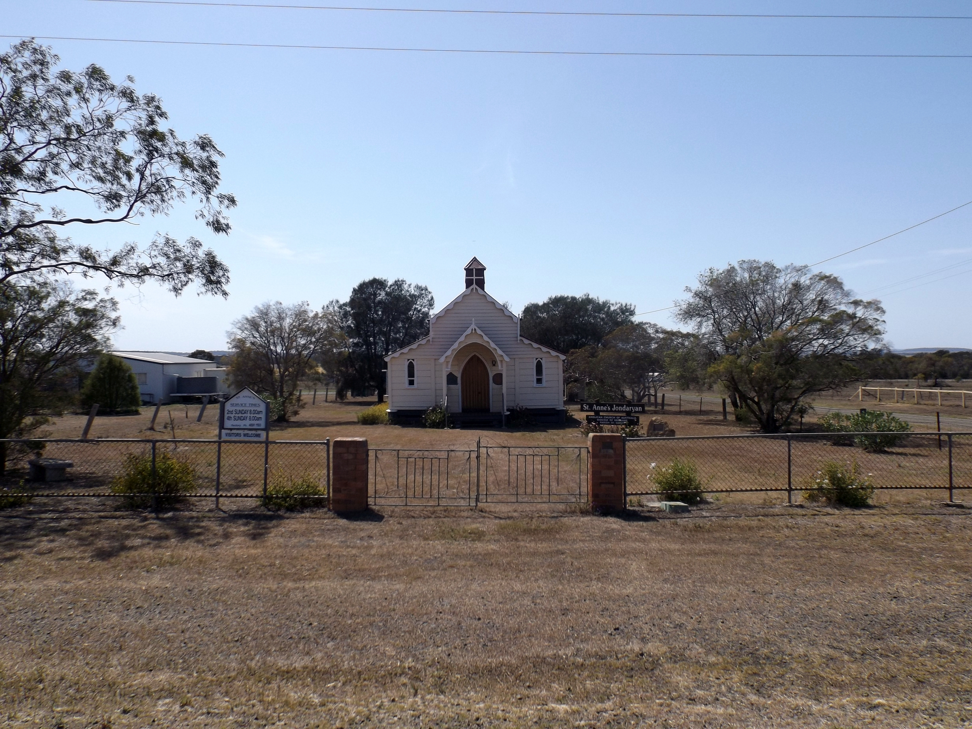 Photo of St Anne's Church at Jondaryan, Queensland, Australia.